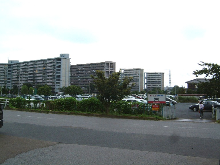 Misato Danchi (Misato Apartment House Complex) in Misato City, Saitama Prefecture, Japan